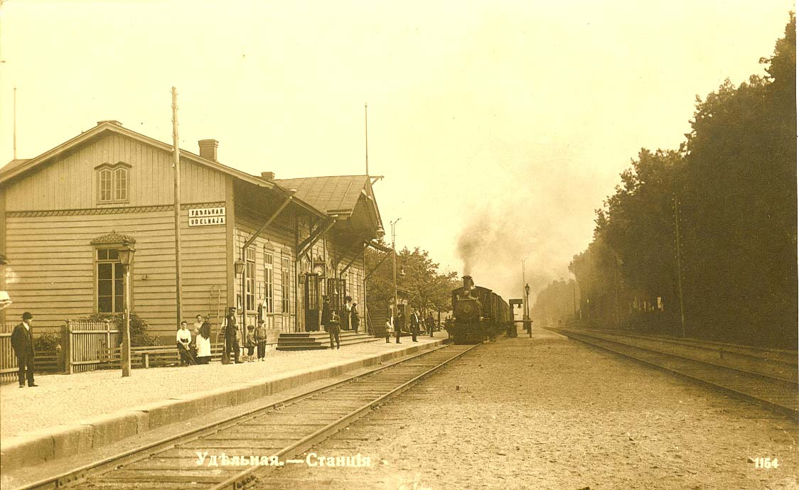 Udelnaya railway station, St.Petersburg. Postcard.